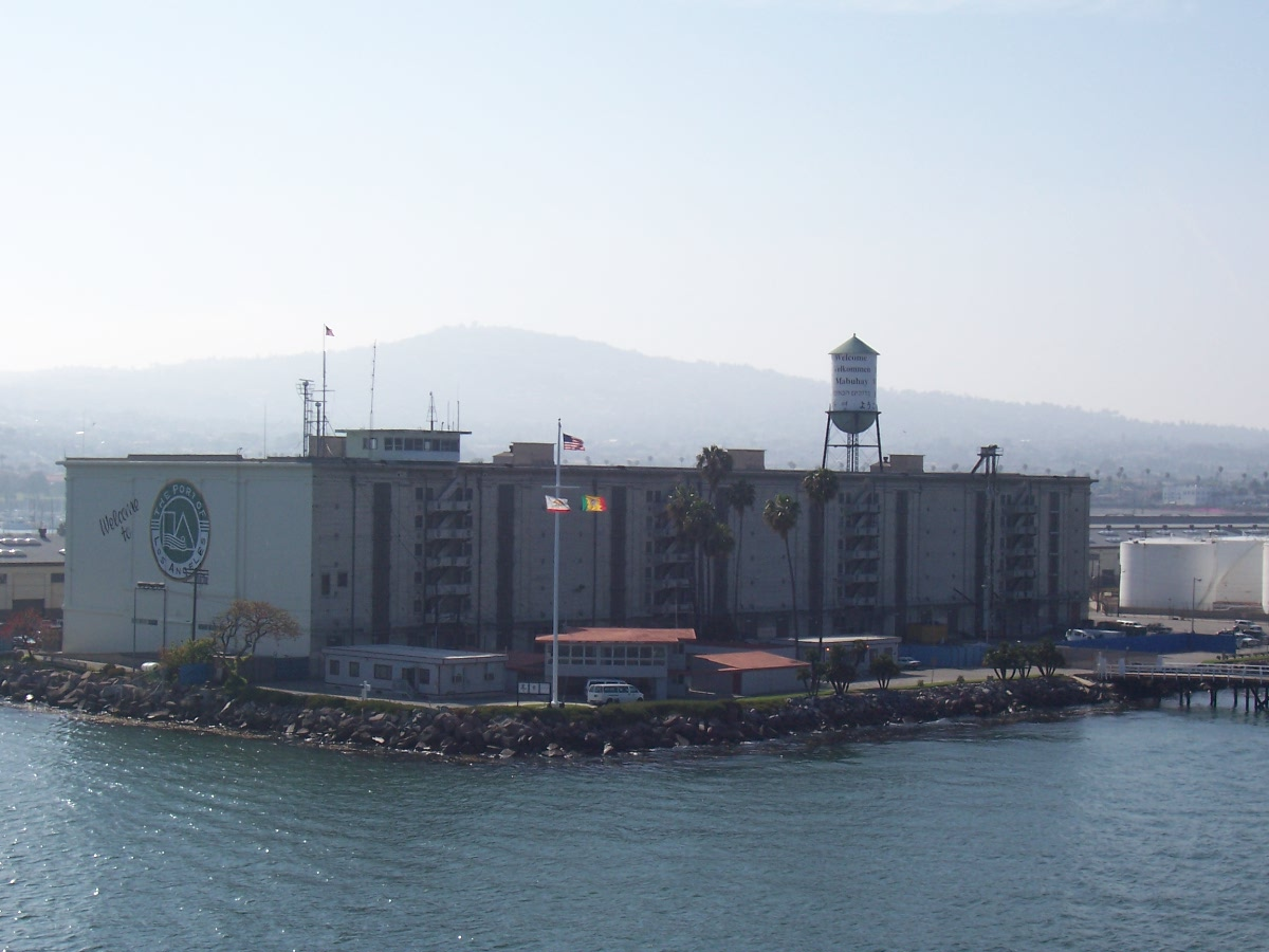 Picture taken in the Port of Los Angeles. Berths 70-71 at the mouth of the Main Channel.